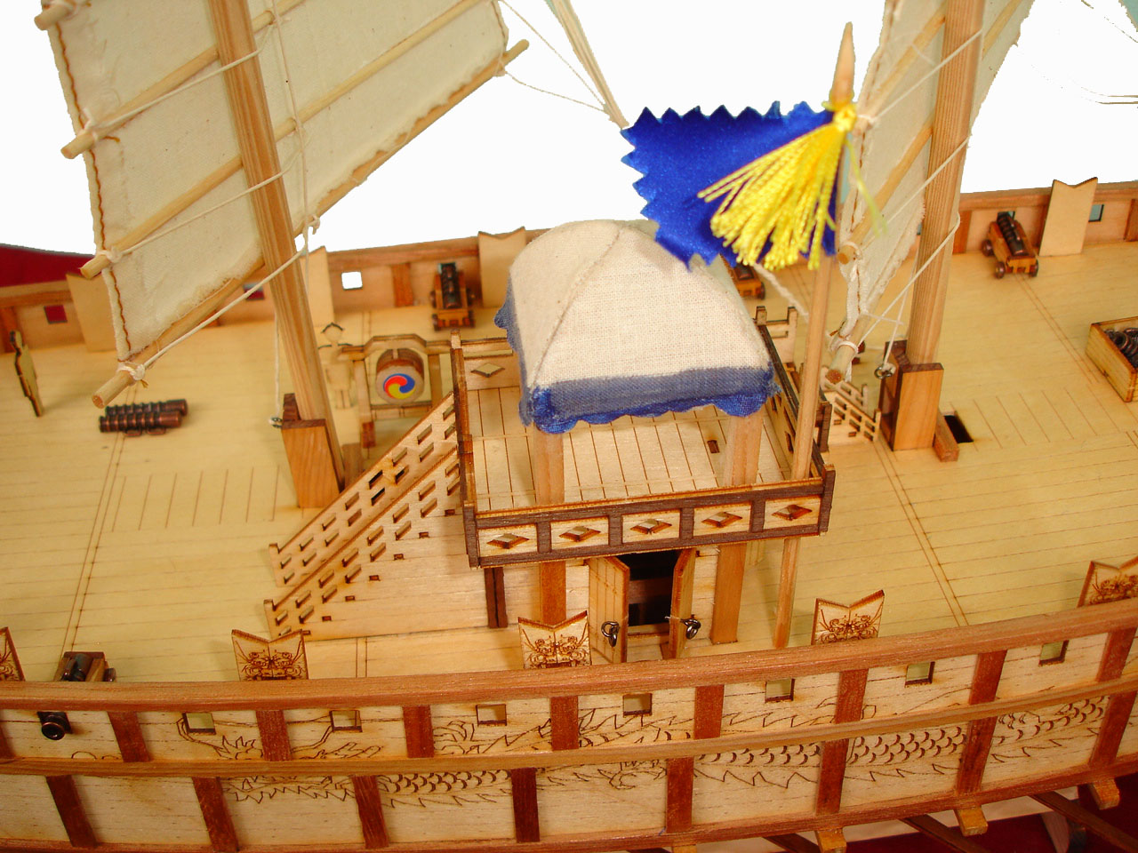 Hand-made Panokseon Wooden-Model. The picture was taken by user:Nikola tesla's digital photo camera.